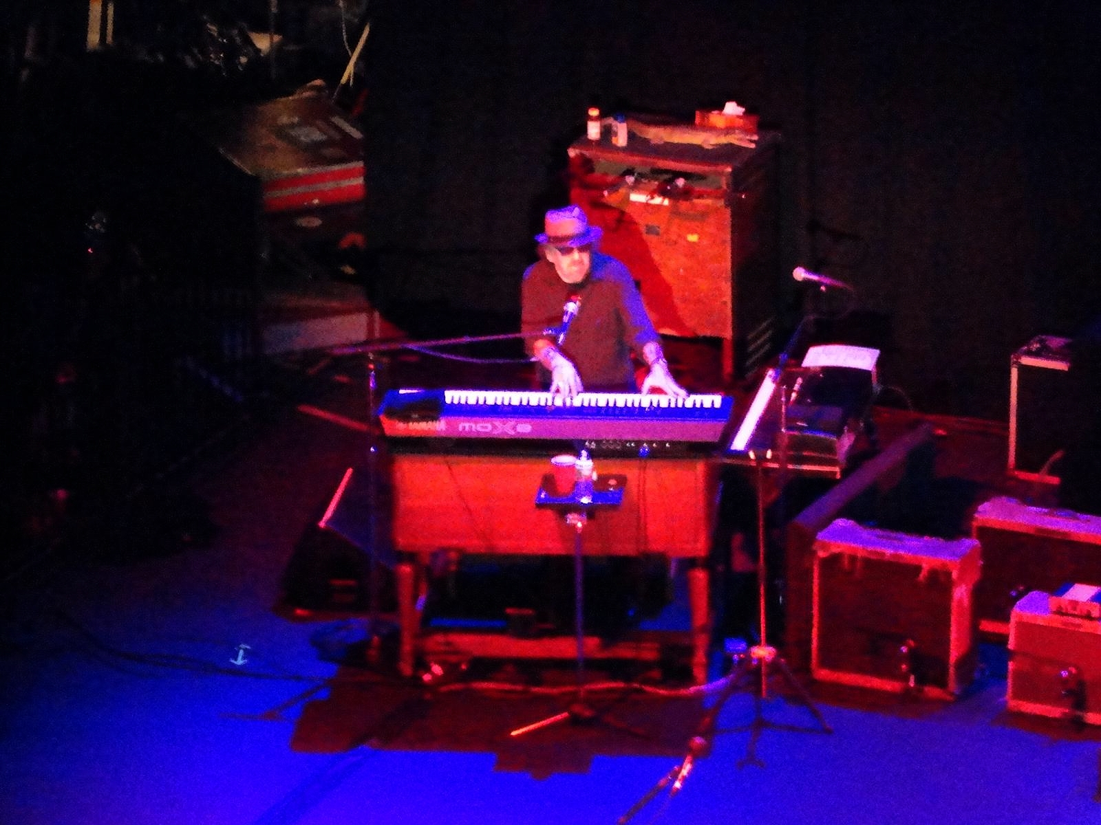 Stephen Stills of Crosby Stills Nash and Young, with "The Rides" Barry Goldberg and Kenny Wayne Shepherd. Barry Goldberg on keyboards in this photo playing with guitarists Stephen Stills and Kenny Wayne Shepherd performed with The Rides at The Wilbur Theater-Boston Mass. on Sept. 7, 2013.